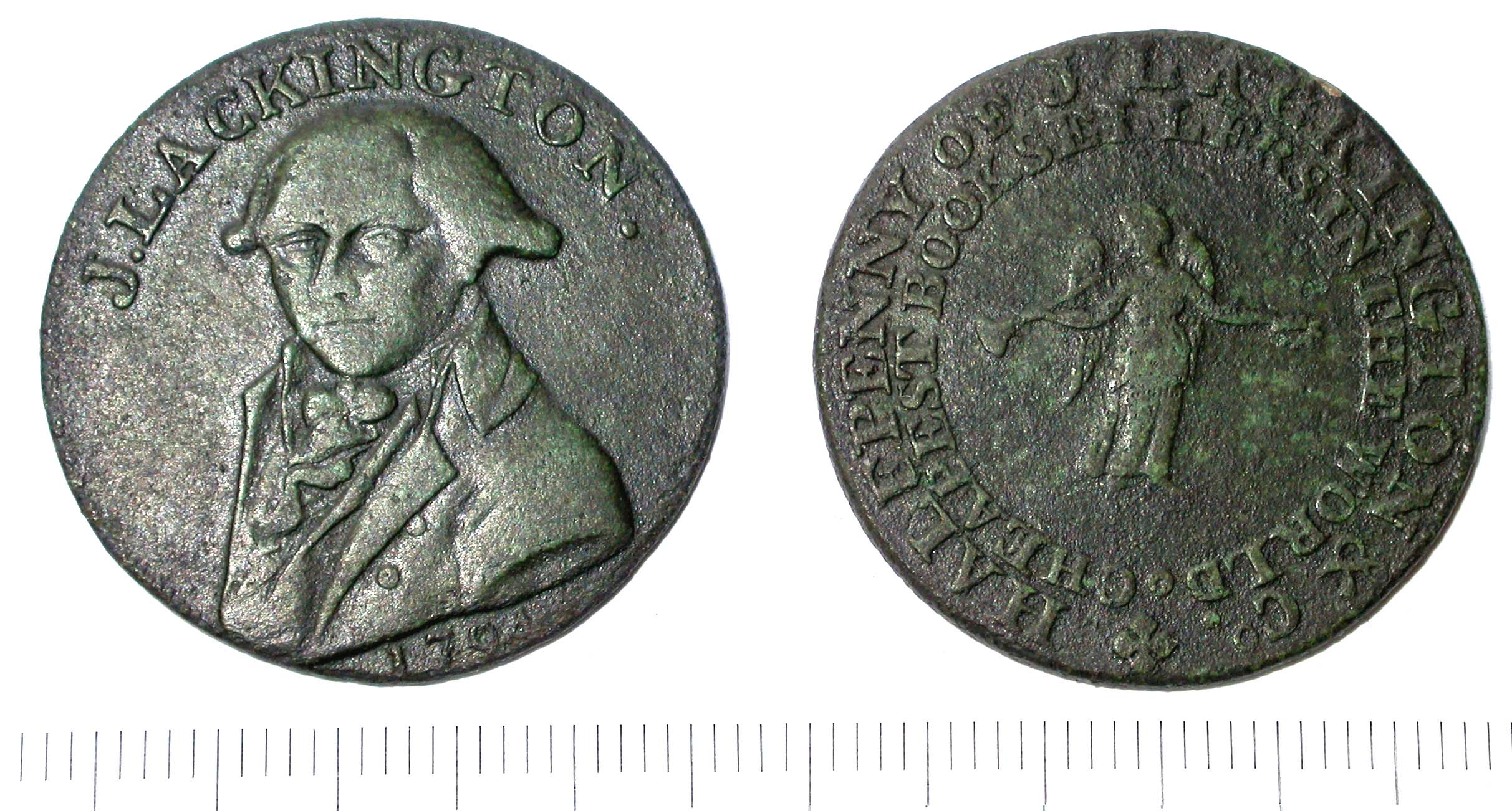 A late 18th century trader's token for J Lackington in London, considered to be the father of modern book selling.